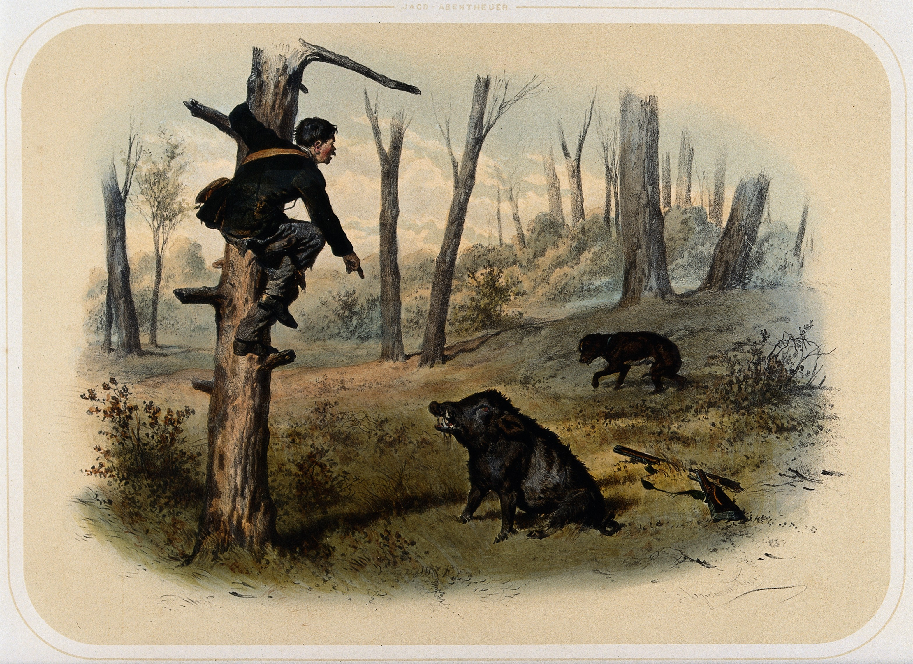 An unarmed huntsman, threatened by a wild boar, takes refuge in a tree. Coloured lithograph by A. Strassgschwandtner after himself, ca. 1860 Iconographic Collections Keywords: Anton Strassgschwandtner